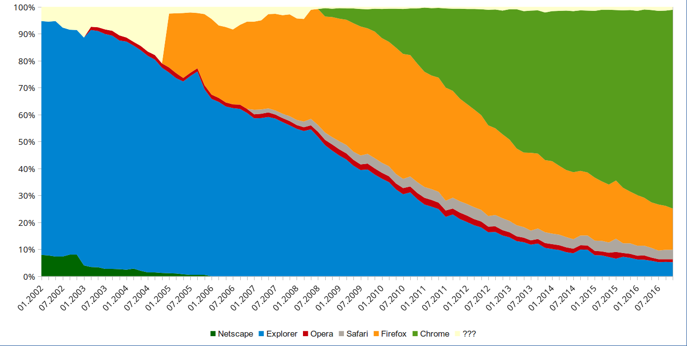 Market shares of webbrowsers based on visits on the site starting January 2002 (Source of data